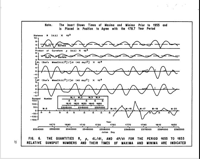 Jeanette Scissum - page from "Survey of Solar Cycle Prediction Models"; text